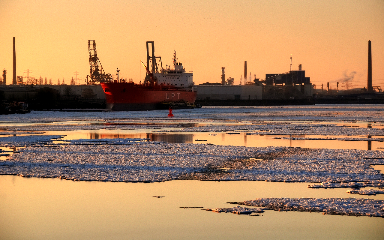 A Frozen River Elbe and the Port of Hamburg, Germany on January 6, 2010